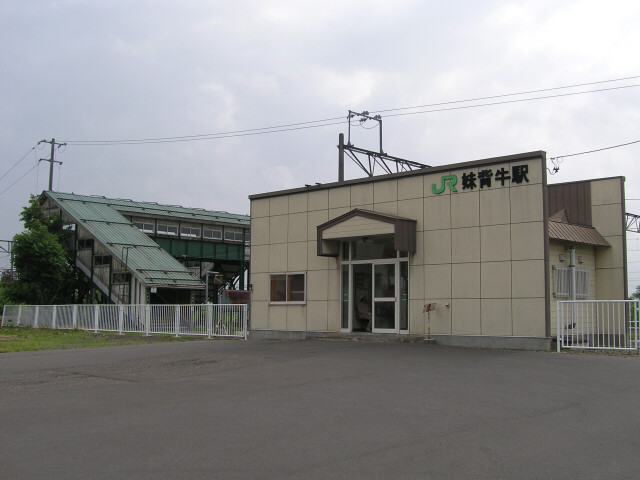 Moseushi Station in Hakodate Main Line, Japan